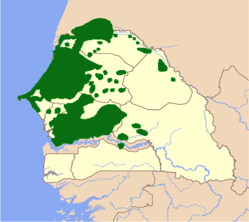 Locator map for Wolof ethnic distribution, ranges gathered from maps [1]. Note that these show areas of traditional concentration of Wolof communities. Distribution of self-identified Wolof people is wider, populations are intermixed, and use of Wolof language has come to be near universal in Senegal.